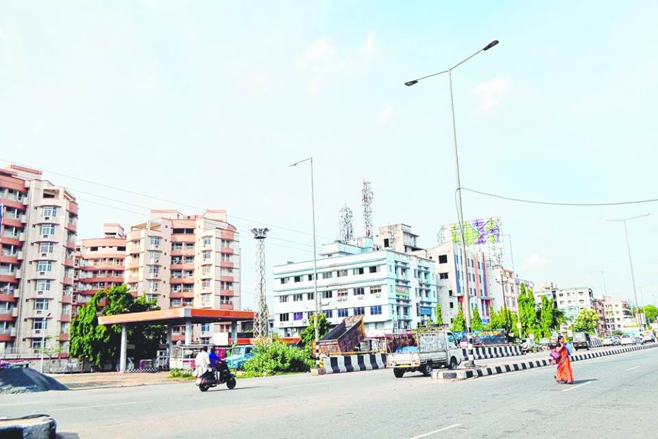 Expressway in Adityapur, Jamshedpur